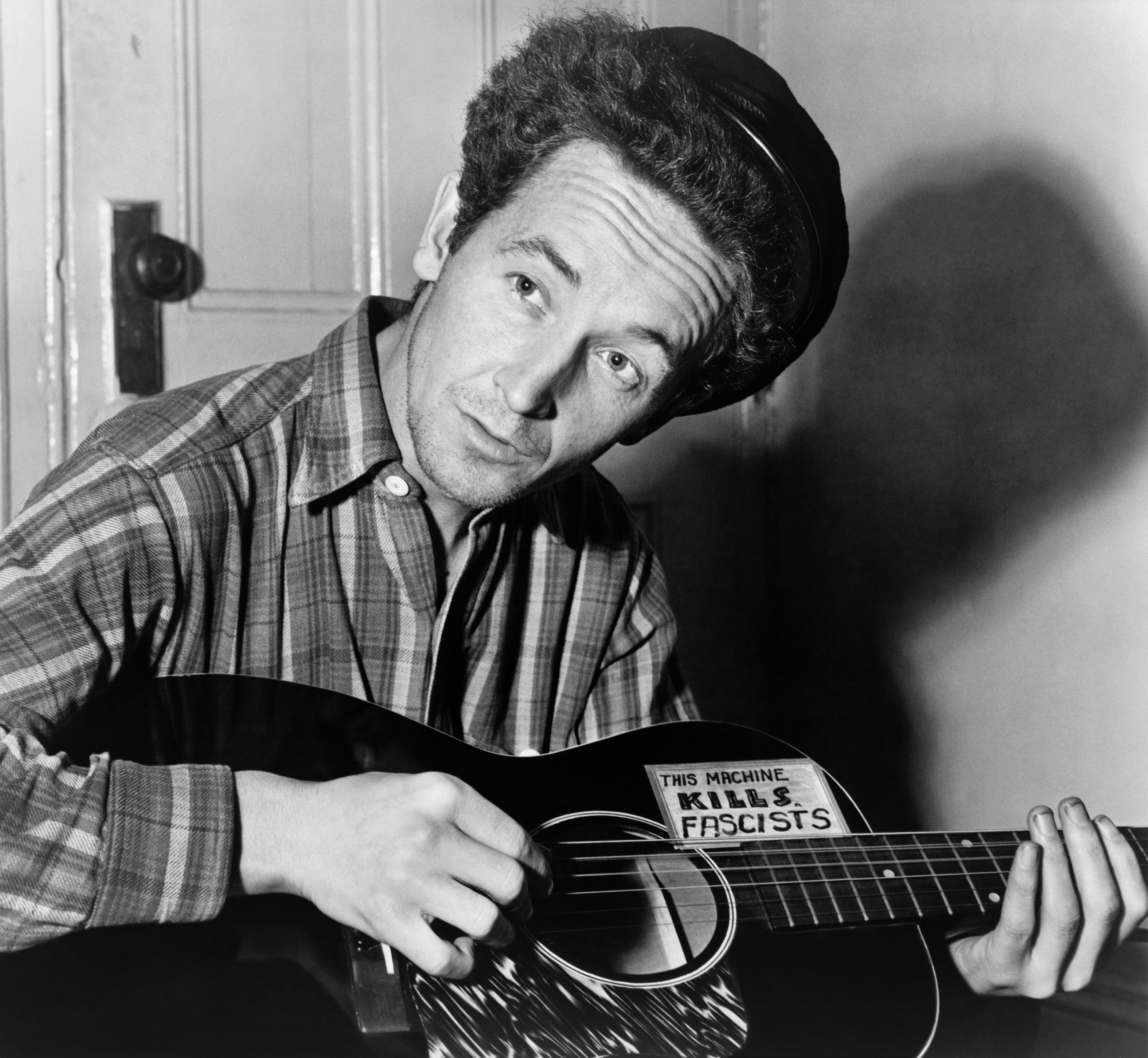 Woody Guthrie, half-length portrait, seated, facing front, playing a guitar that has a sticker attached reading: This Machine Kills Fascists